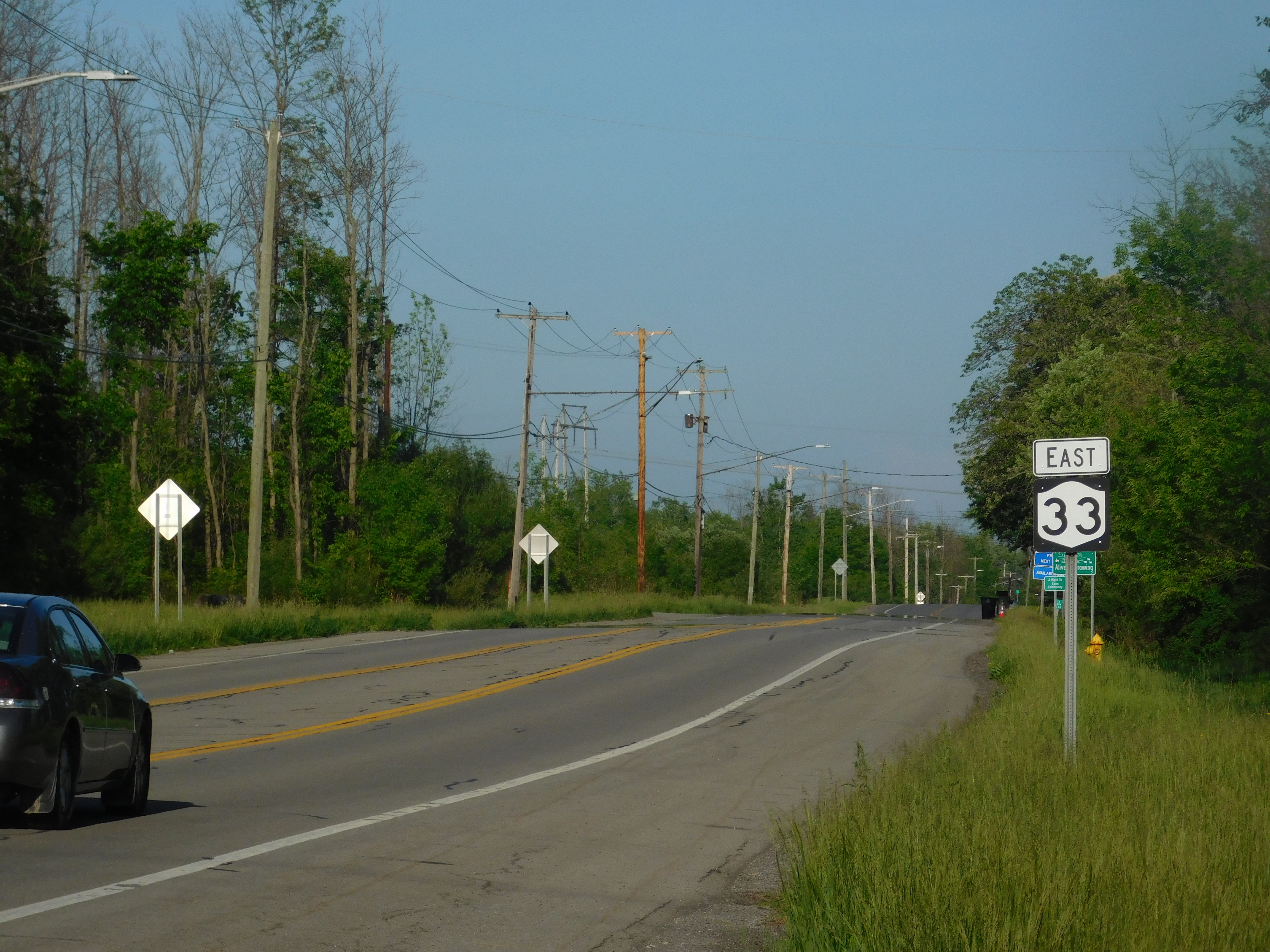 New York State Route 33 eastbound in Alden, New York.